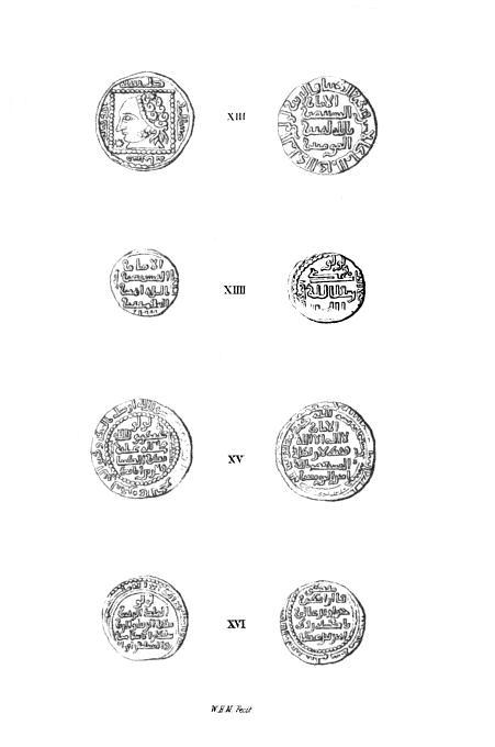 Plate from The History of the Atábeks of Syria and Persia (1848), edition by William Hook Morley of the work by Mīr-Khvānd.